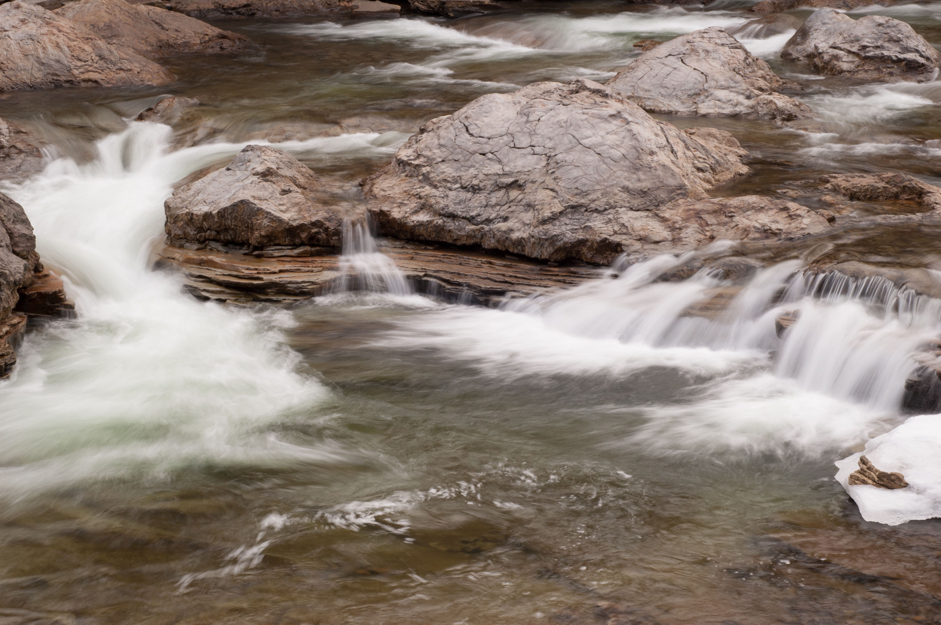 Rock formations called The Haystacks along the Loyalsock Trail, Pennsylvania